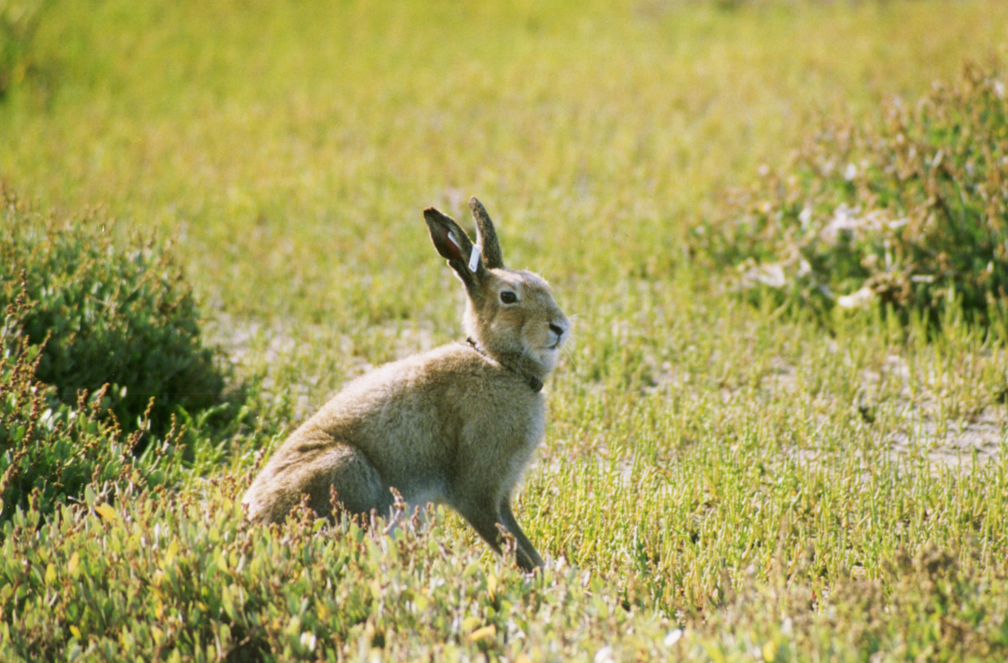 A light colored male Irish mountain hare (Lepus timidus hibernicus) with radiocollar and eartag on North Bull Island, Dublin, Ireland. 53 22 39.76N 06 08 28.65W